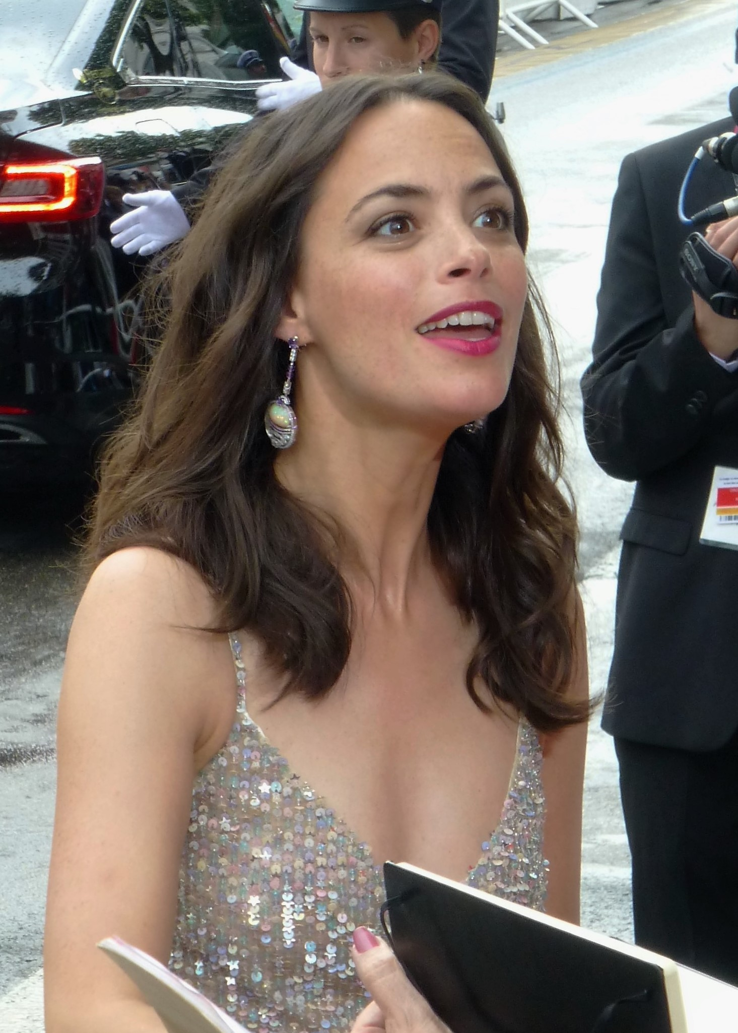 Berenice Bejo at the world premiere of The BFG, 2016 Cannes Film Festival